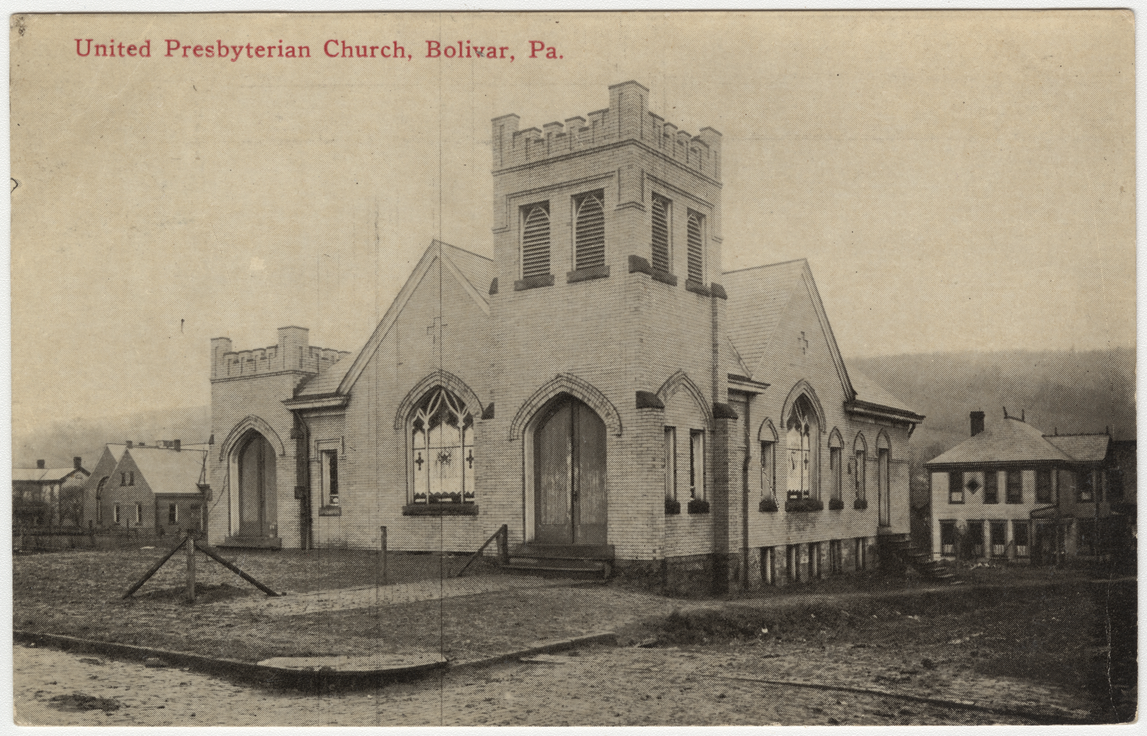 Postcard of a Presbyterian church from RG 428, Postcard Collection, Presbyterian Historical Society, Philadelphia, Pennsylvania. This is the United Presbyterian Church in Bolivar, Pennsylvania